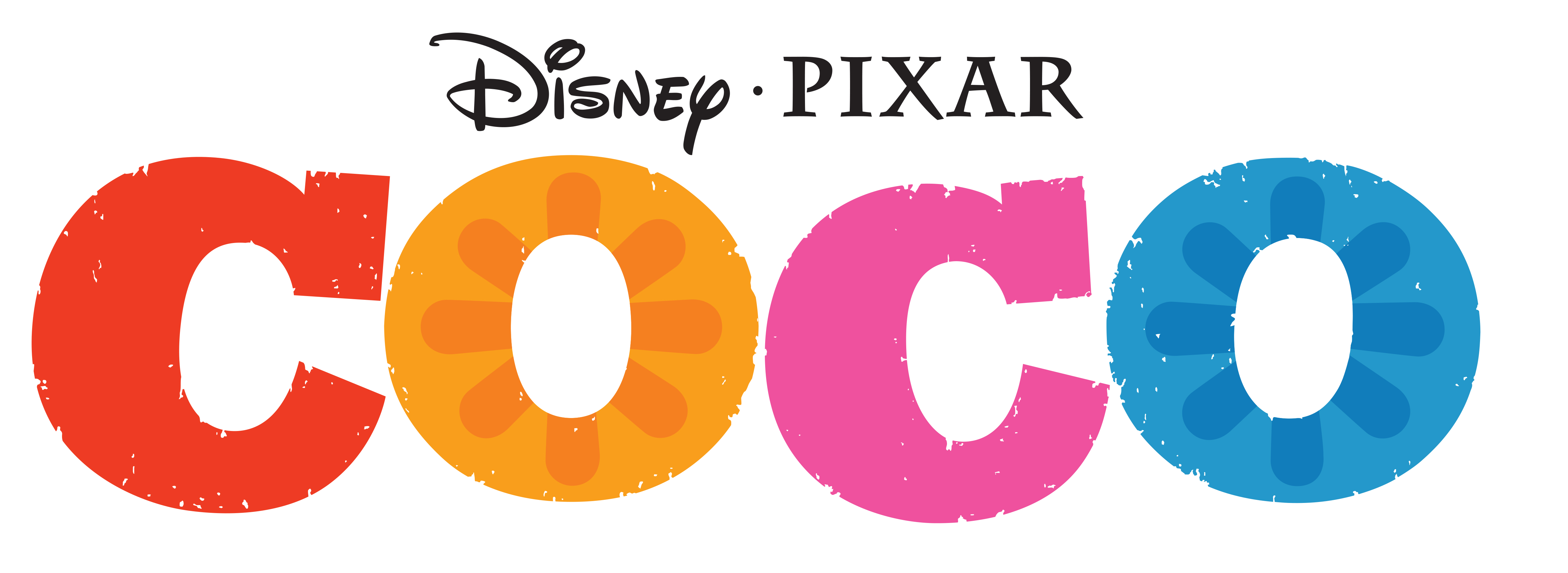 Coco is a 2017 American 3D computer-animAppuyez sur un élément pour le coller dans le champ de texte.ated musical fantasy film produced by Pixar Animation Studios and released by Walt Disney Pictures